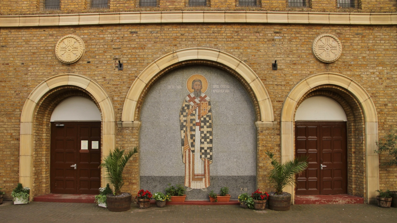 Part of the front of the Serbian Orthodox church of St Sava, Lancaster Road, London W11. Twin entrance arches flank a central blind arch in which is a mosaic of St Sava.